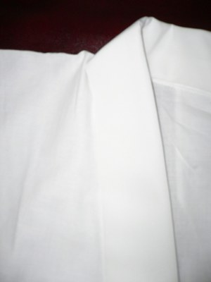 Haneri is a substitute collar to sew on the Juban which is underwear for the kimono.